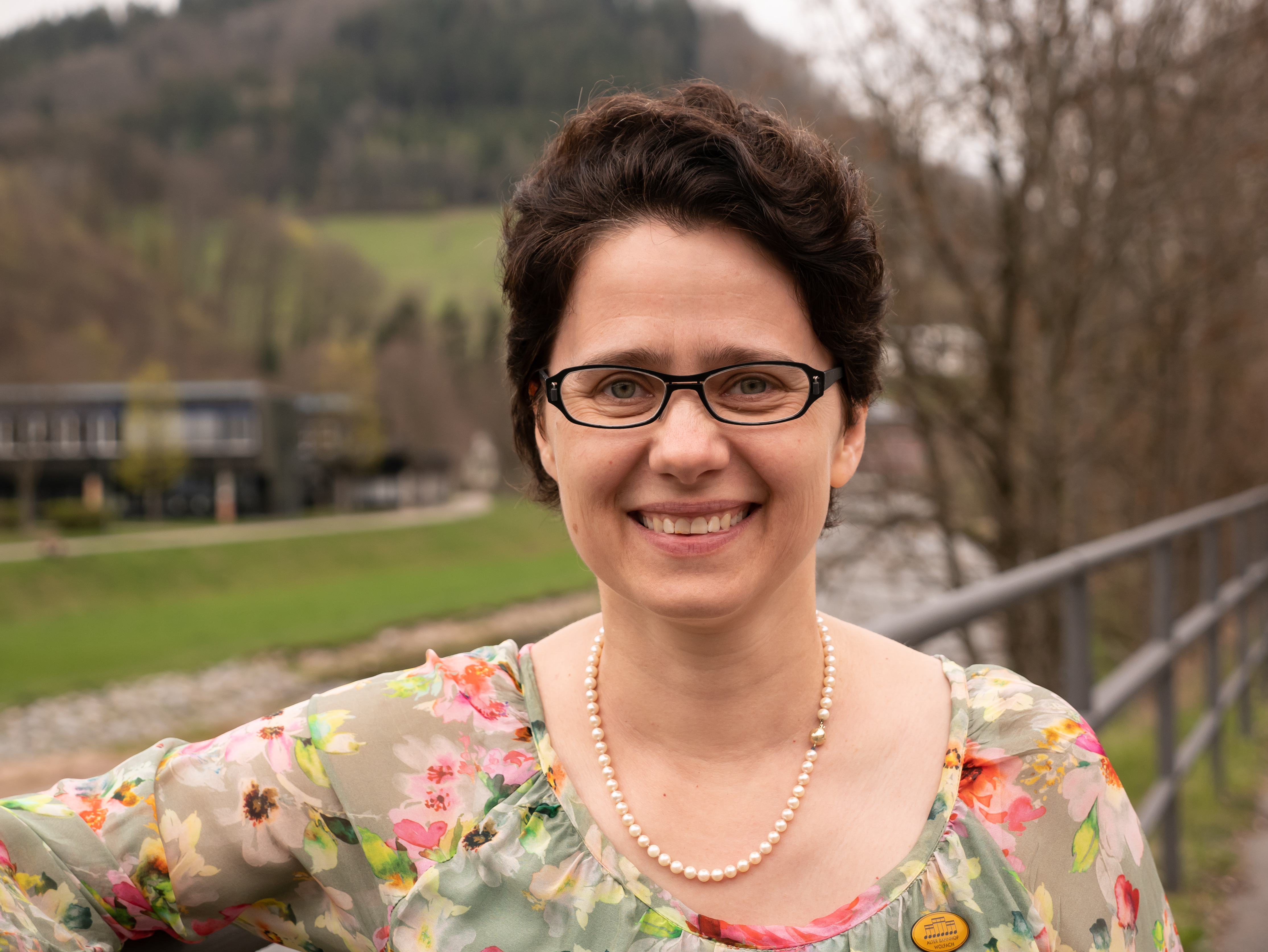 German politician Marion Gentges, 2019